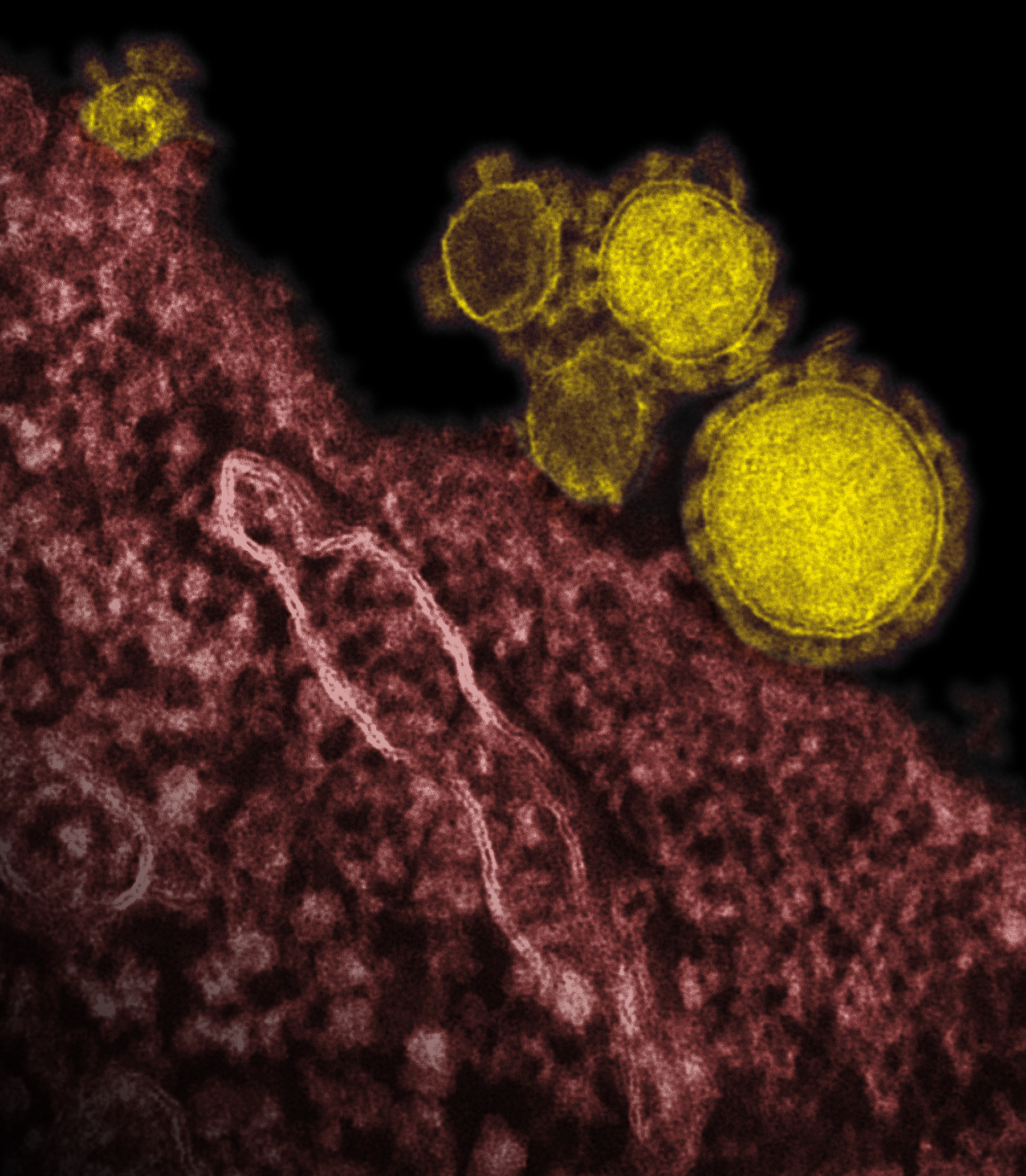 Transmission electron micrograph of Middle East respiratory syndrome coronavirus particles, colorized in yellow. Credit: NIAID